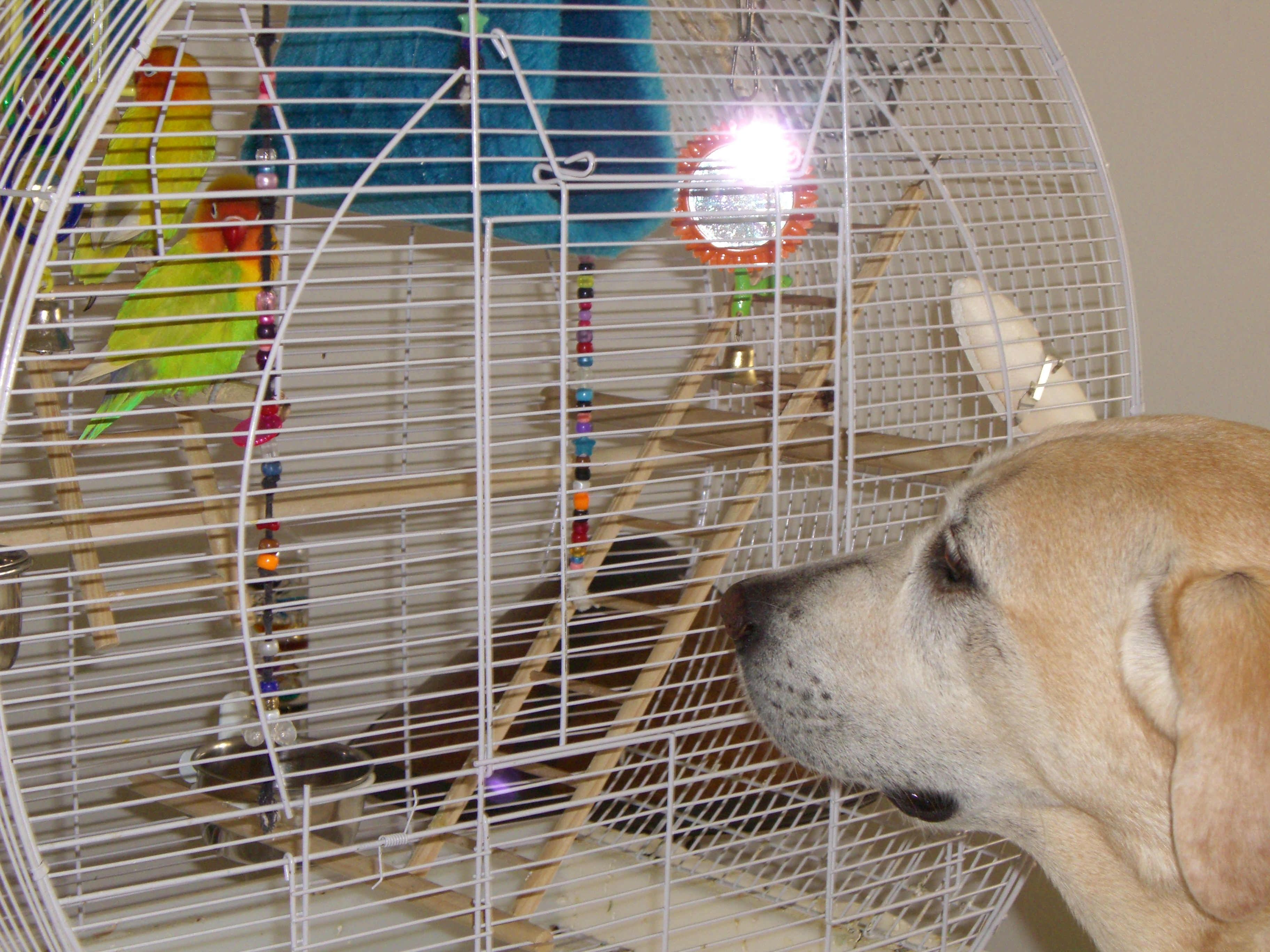 Two pet domesticated lovebirds in a cage watched by a large dog.